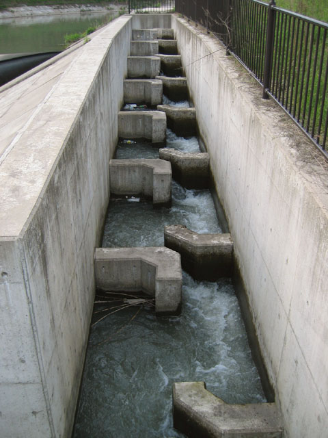 sort of vertical-slot fish ladder